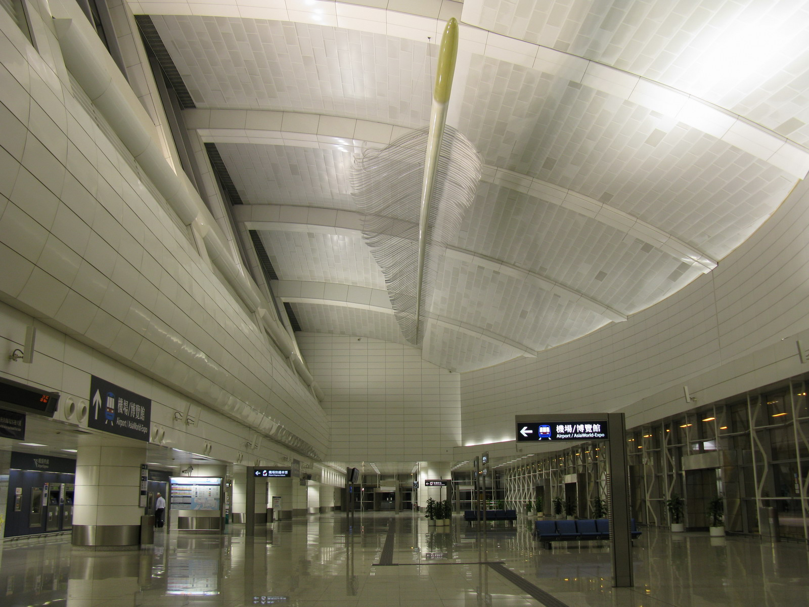 Airport Express Line Concourse, Tsing Yi Station Birds of a Feather installation by Neil Dawson (New Zealand) [1]